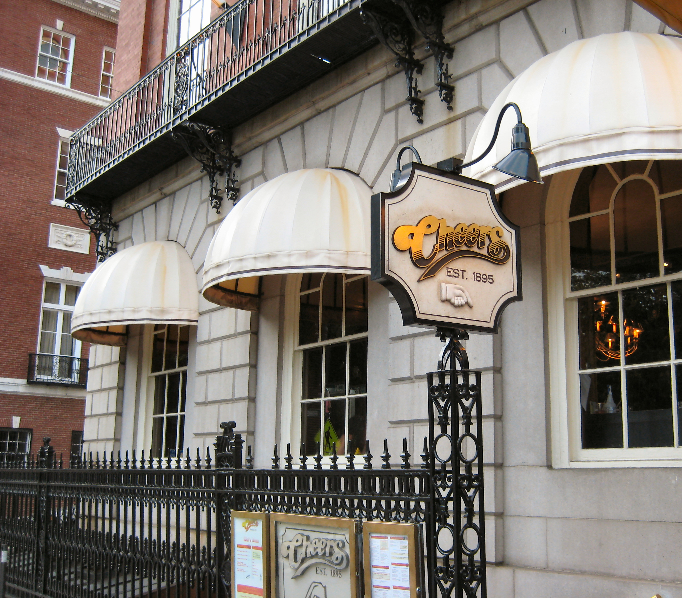 Cheers Beacon Hill, Boston.